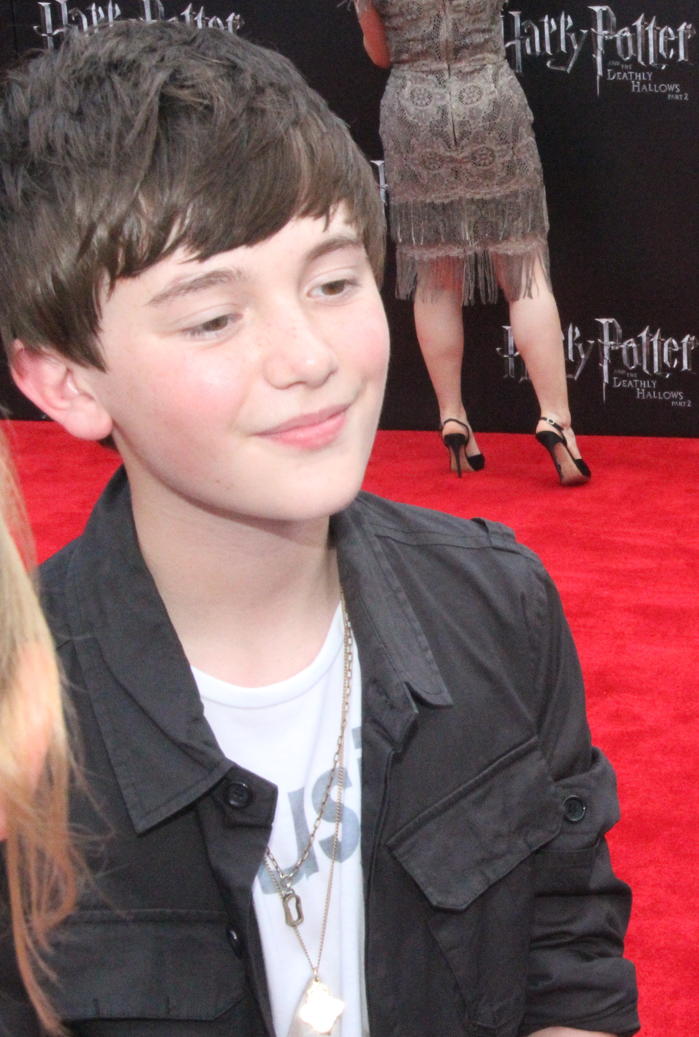 Greyson Chance at the film premiere of Harry Potter and The Deathly Hallows: Part 2 in Avery Fisher Hall-Lincoln Center, New York City in July 2011.